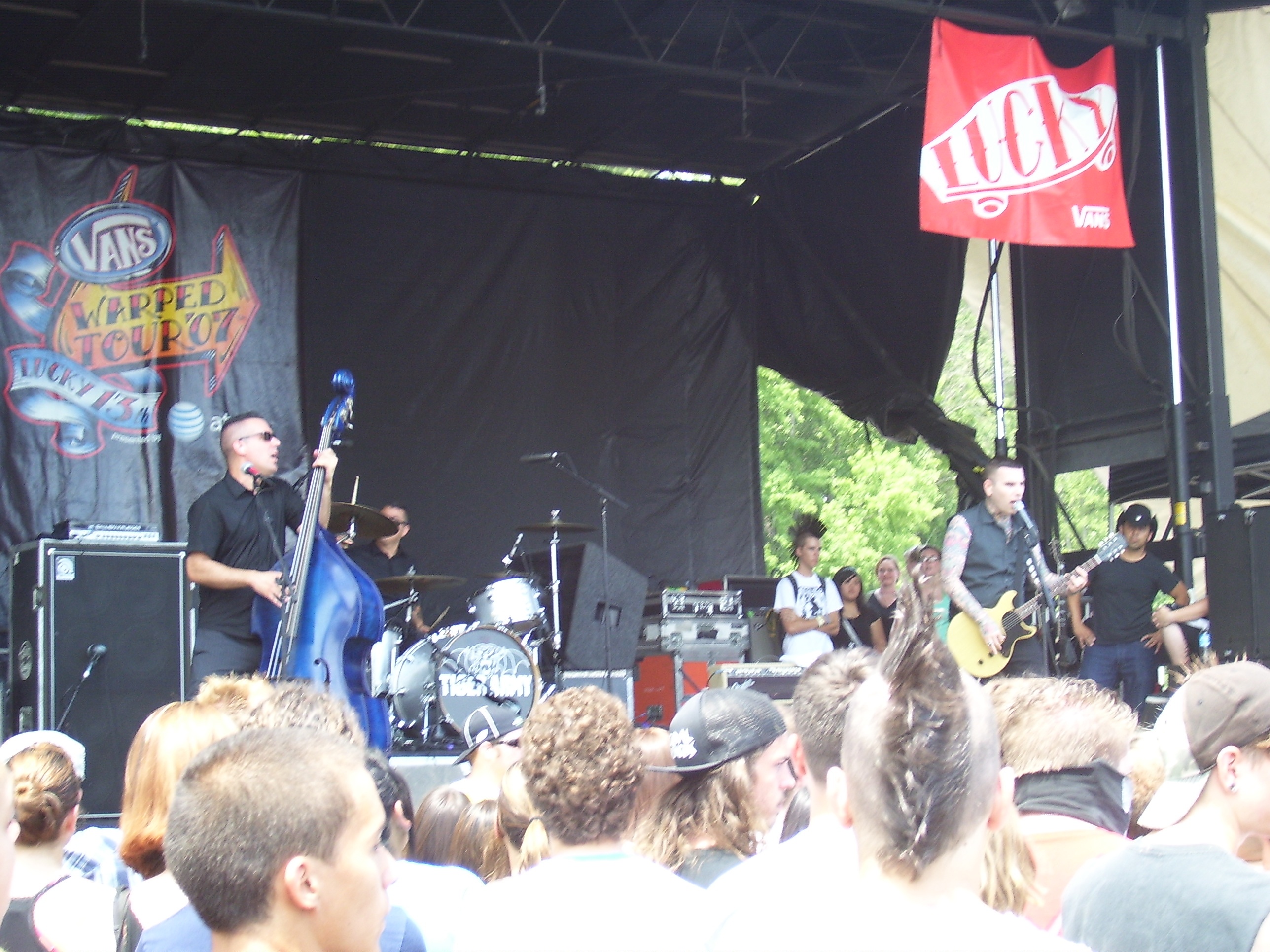 Tiger Army @ Vans Warped Tour 2007 in Virginia Beach